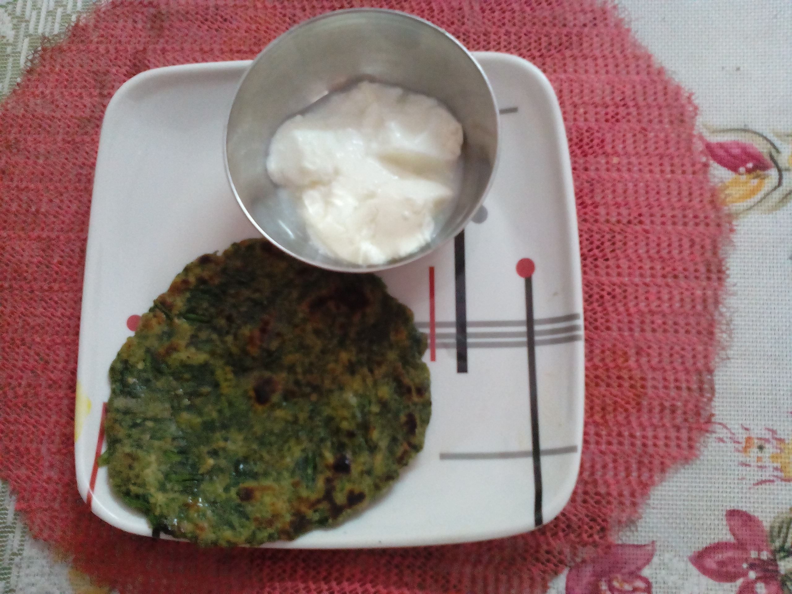 This is a pancake made with spinach and another ingredient.This is a good source of vitamin A, etc . It is a healthy breakfast in the morning along with fresh curd.